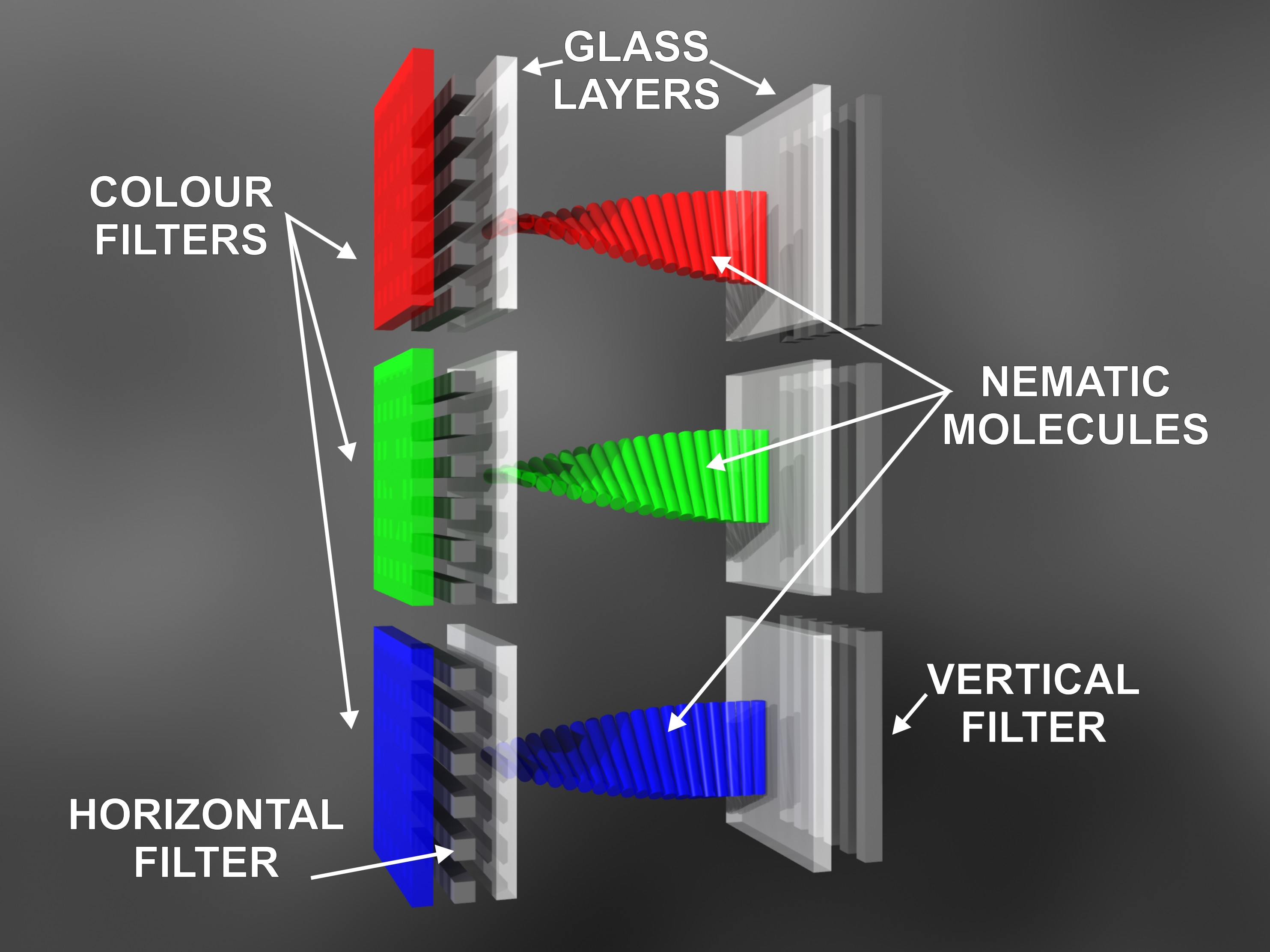 RGB LCD subpixel. Rendered by Lightwave 9.6 using ray-tracing and radiosity algorithms.